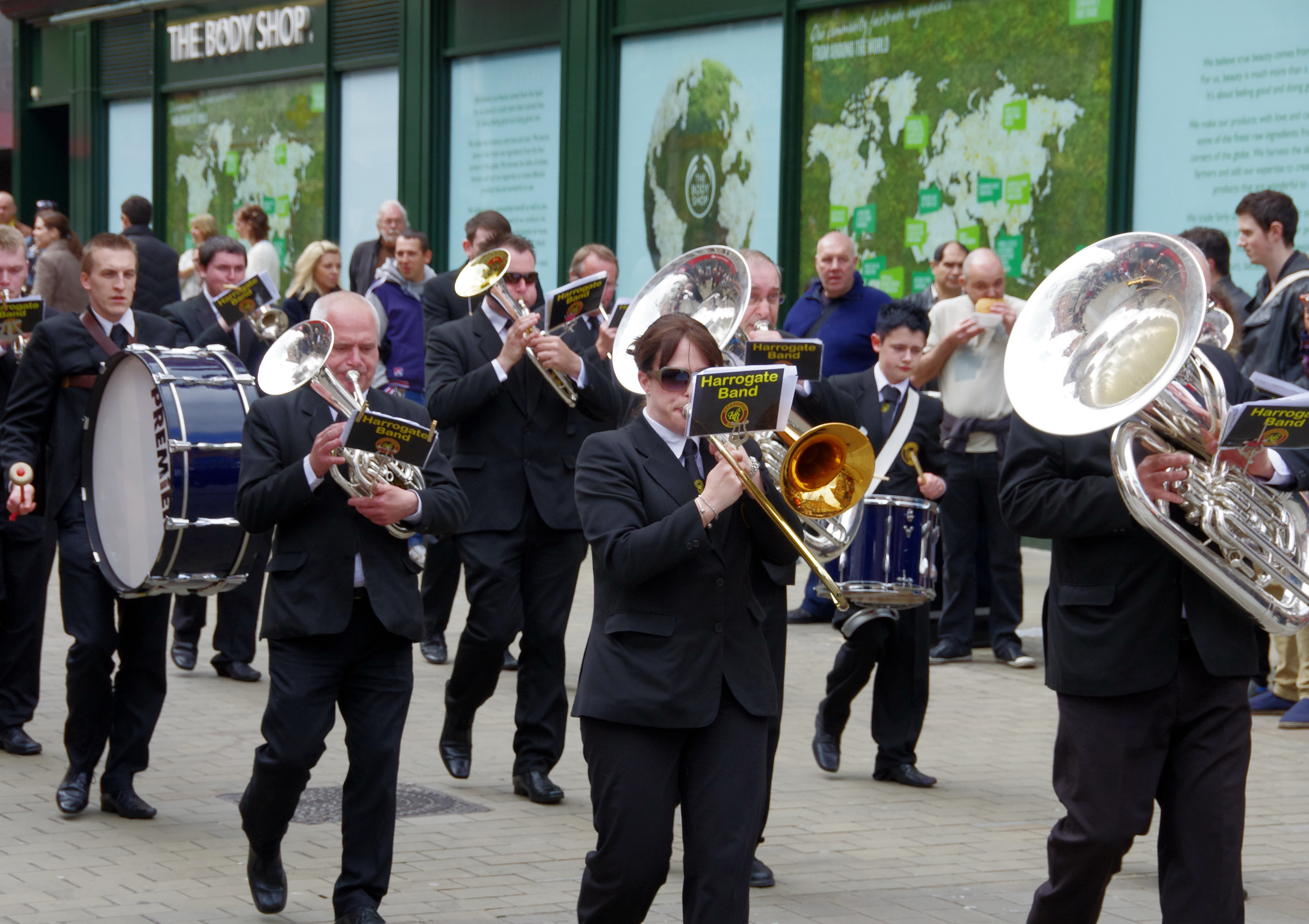 20.5.12 4 Leeds OverWorlds and UnderWorlds Bands and Street Dance 02